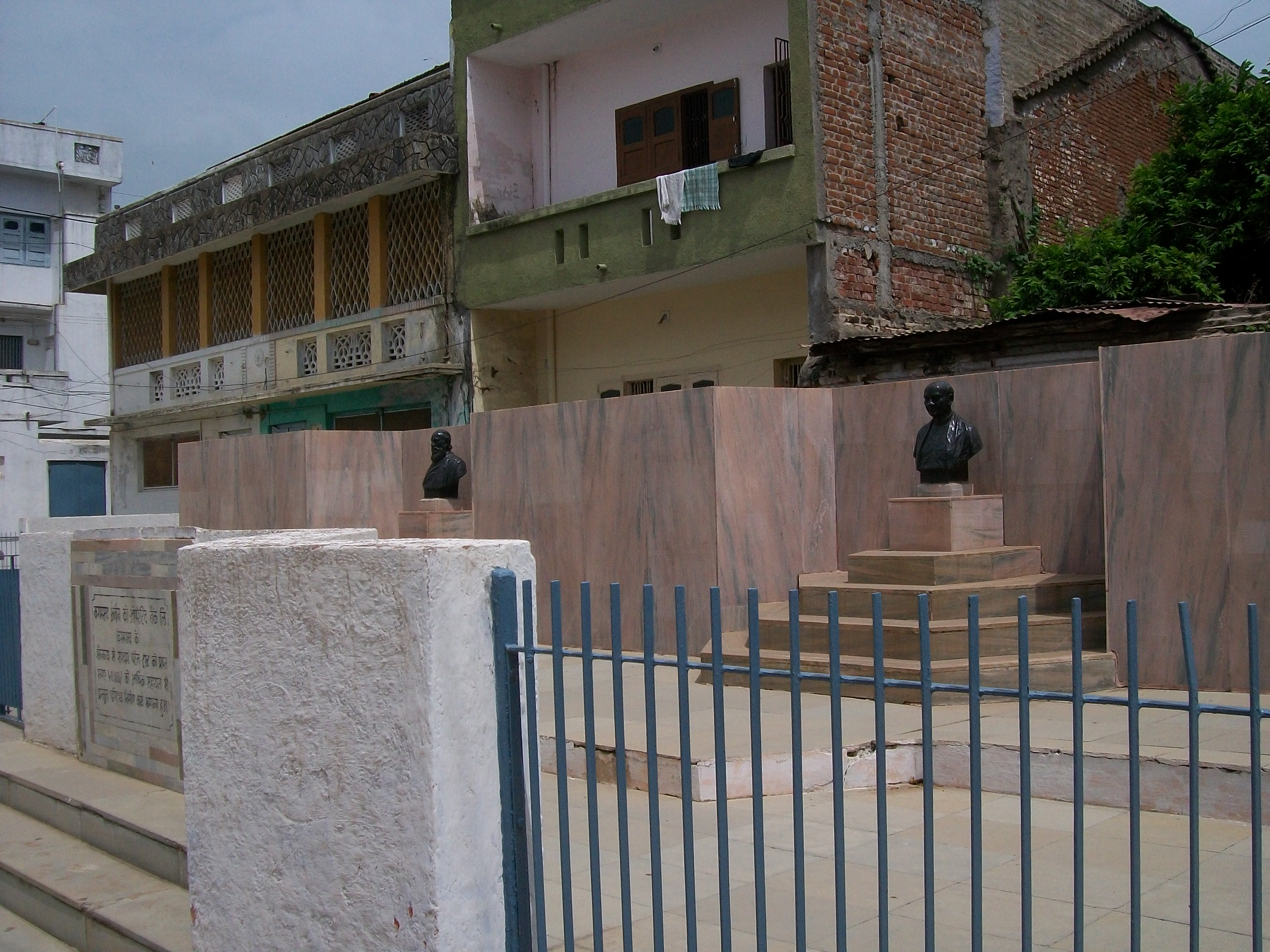 This is the home of Sardar Vallabhbhai Patel, situated in the VVNagar, Anand Gujarat. It is very hystorical place as Sardar Patel Studied here in primary school. Statue is placed for his memory and for his work done by him. His collection of whole life photos are also in his home.